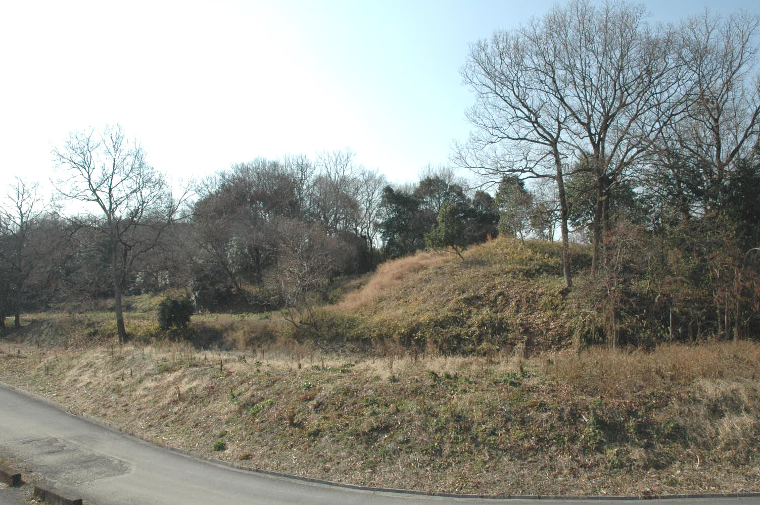 Samita Takaraduka Kofun(tumulus) Kaokumonkyo(An old millor drawn ancient Japanese houses) was found from this tumuls in 1882. Kawai Town,Nara Prefecture,Japan